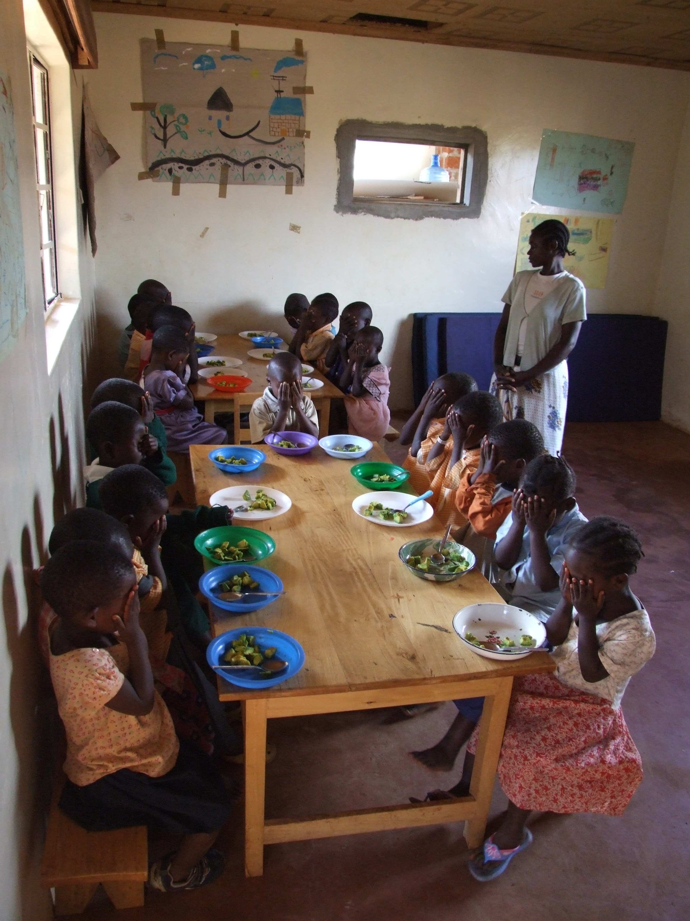 Orphan children in the Nyota daycare center in Lwala/Kenya are praying before lunch